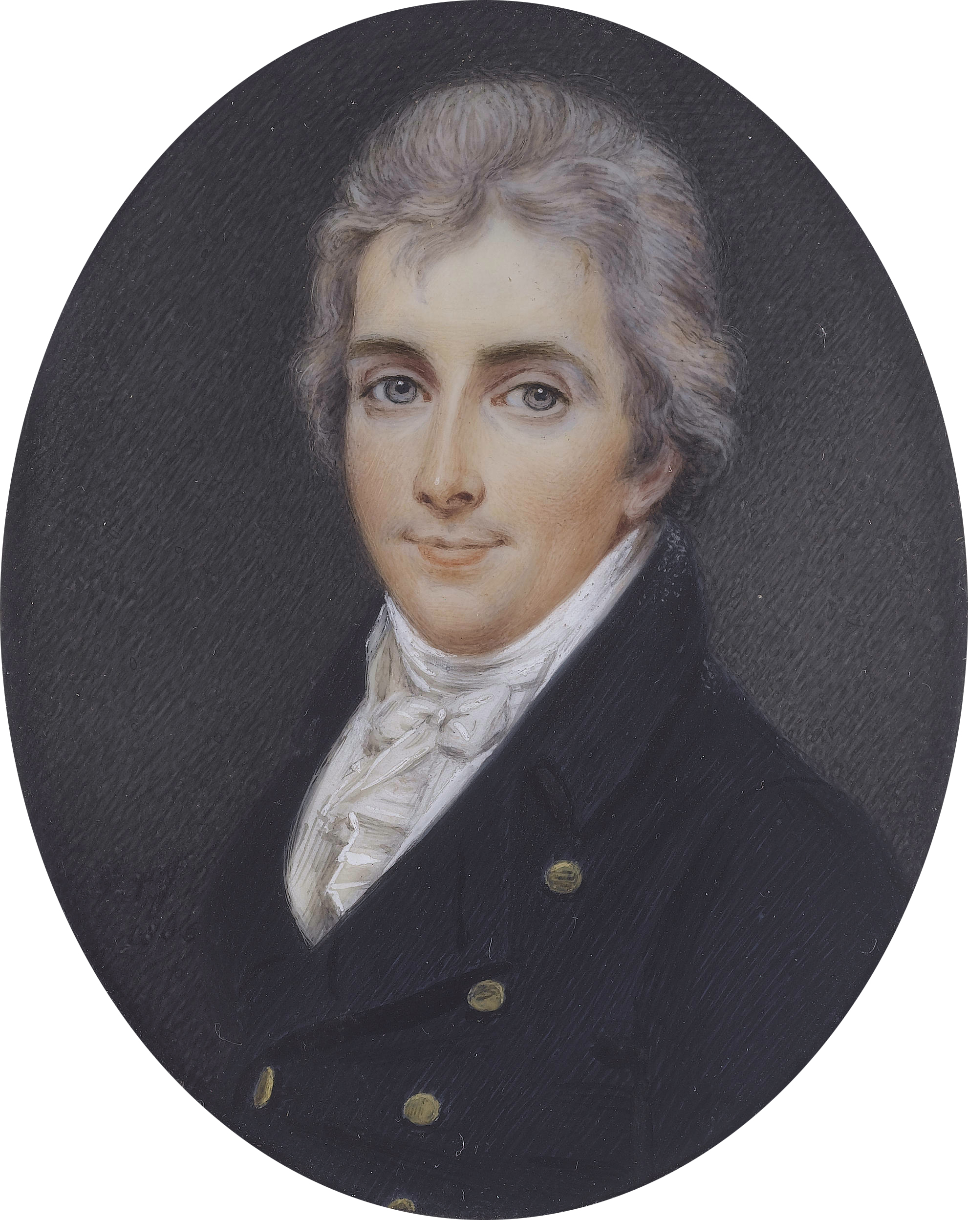 Peniston Lamb (1770-1805) 7.2 cm high signed b.l.: J S J/ 1805